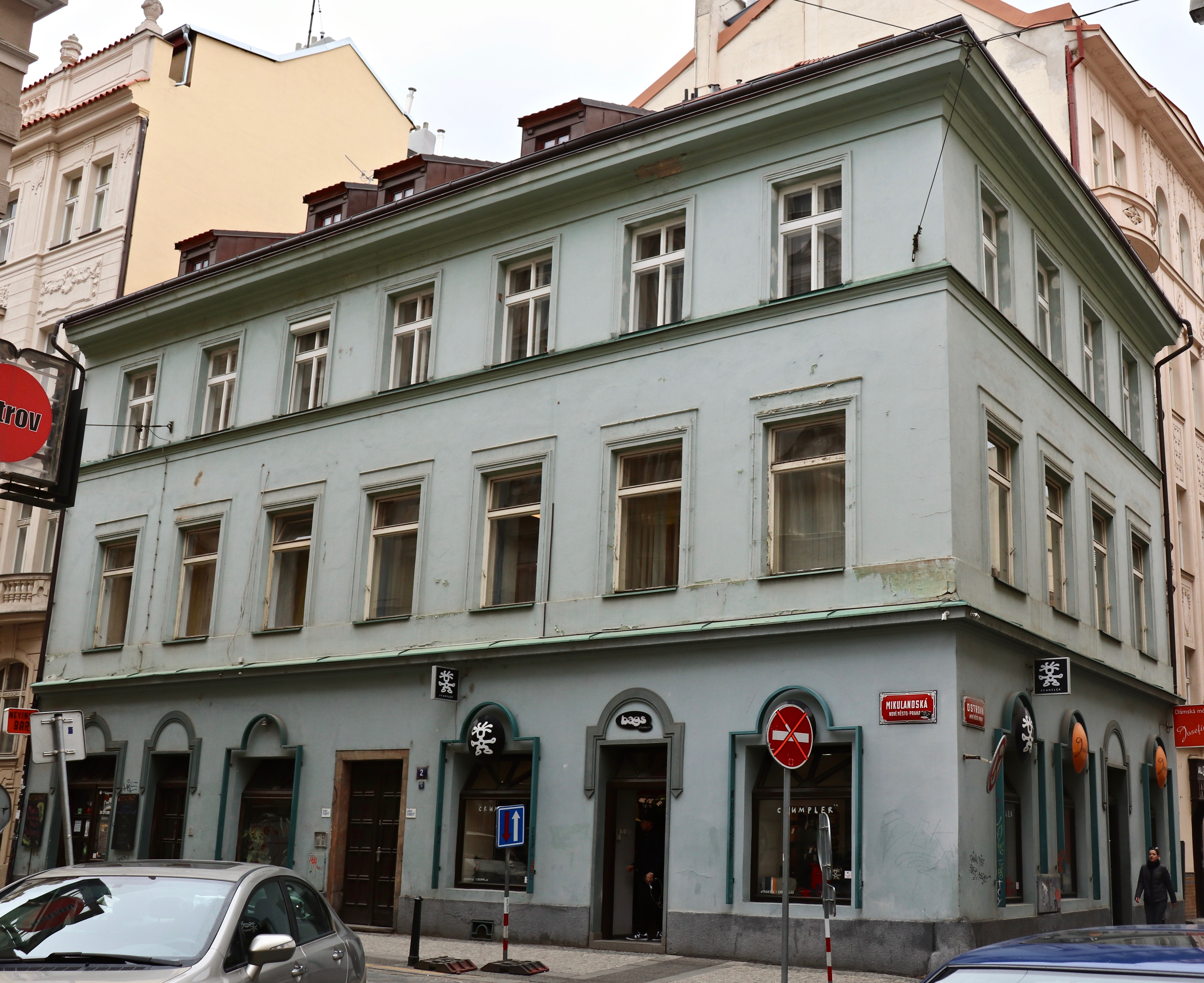 Pohled na dům z nároží ulic Ostrovní a Mikulandská